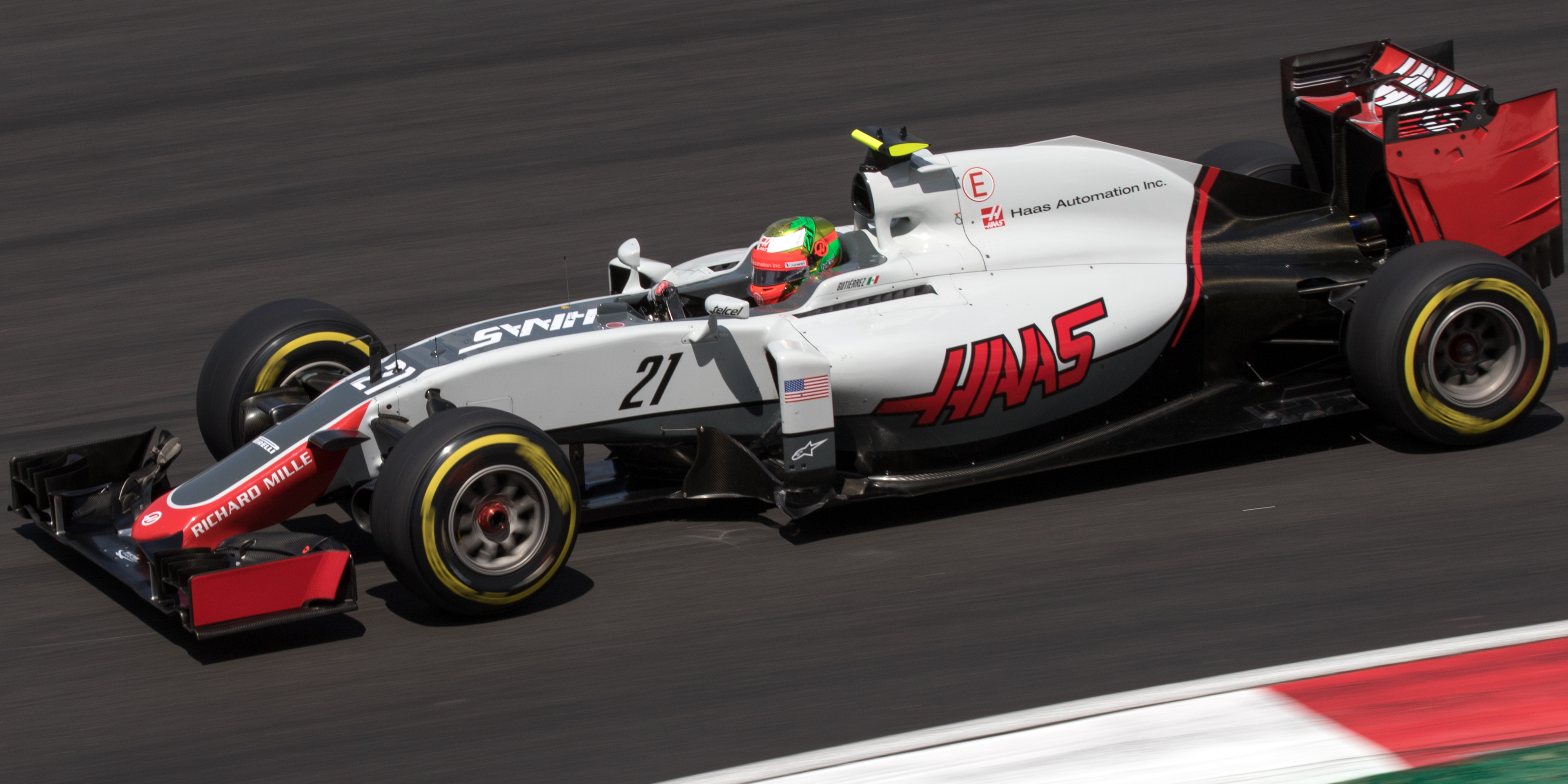 Formula One 2016 Rd.16 Malaysian GP: Esteban Gutiérrez (Haas F1 Team)